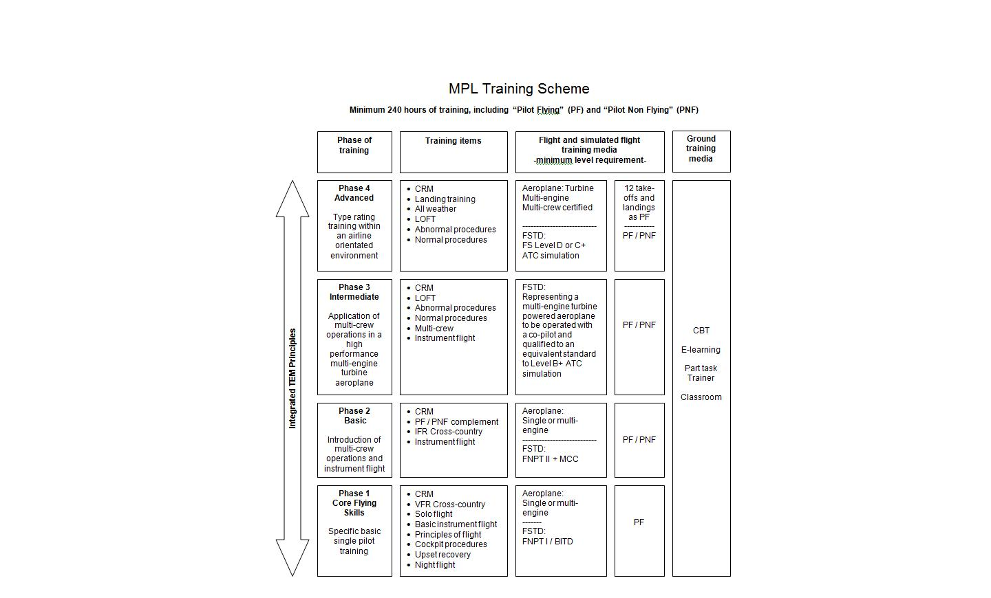 Joint Aviation Authorities MPL Training Scheme